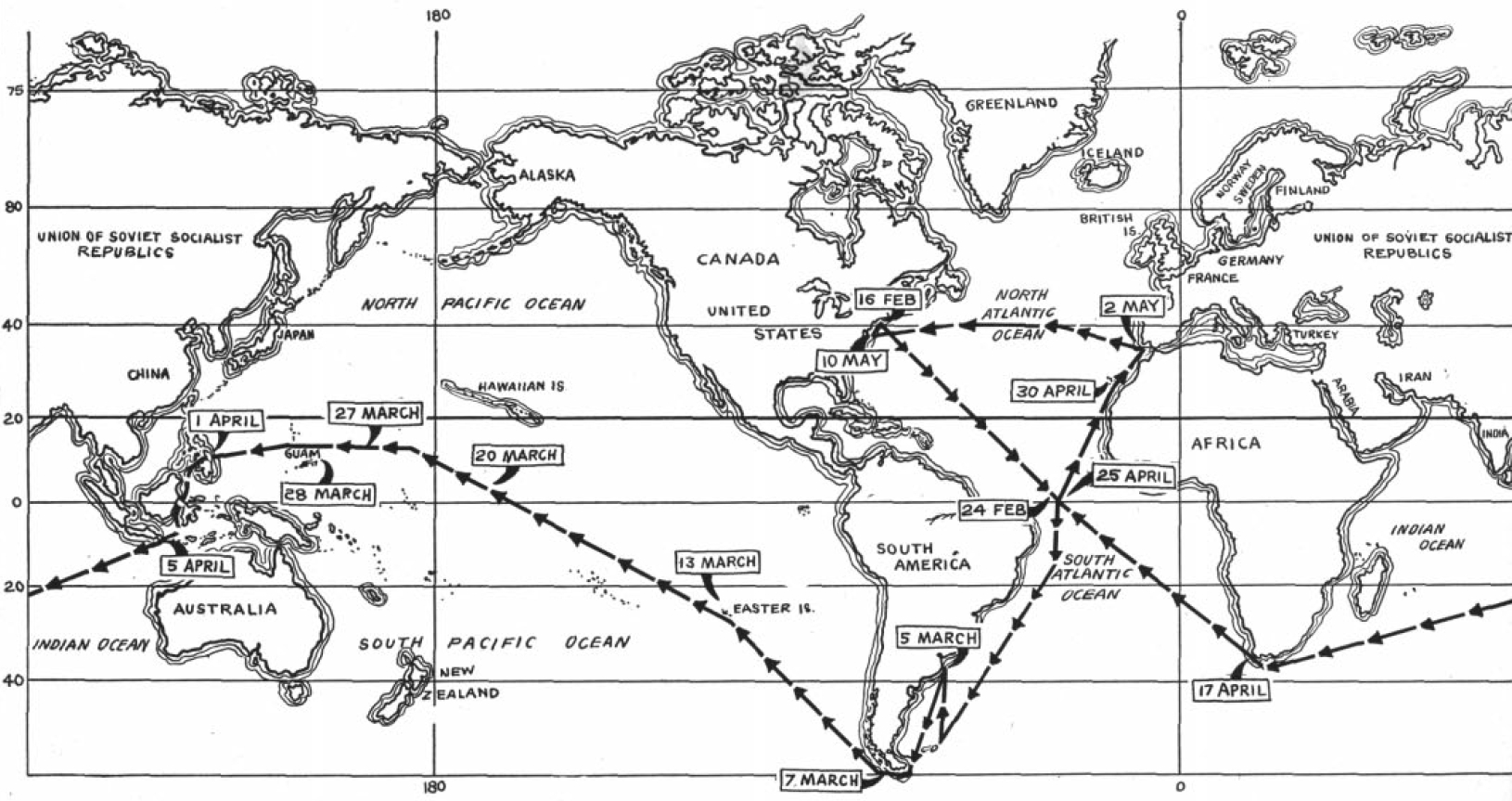 Original caption: WORLDLY CHART - Undersea route of USS Triton, SSN(R) 586, shown here is course Magellan sailed topside, 1519.